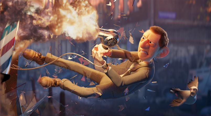 Splash file for the free and open Blender 3D application